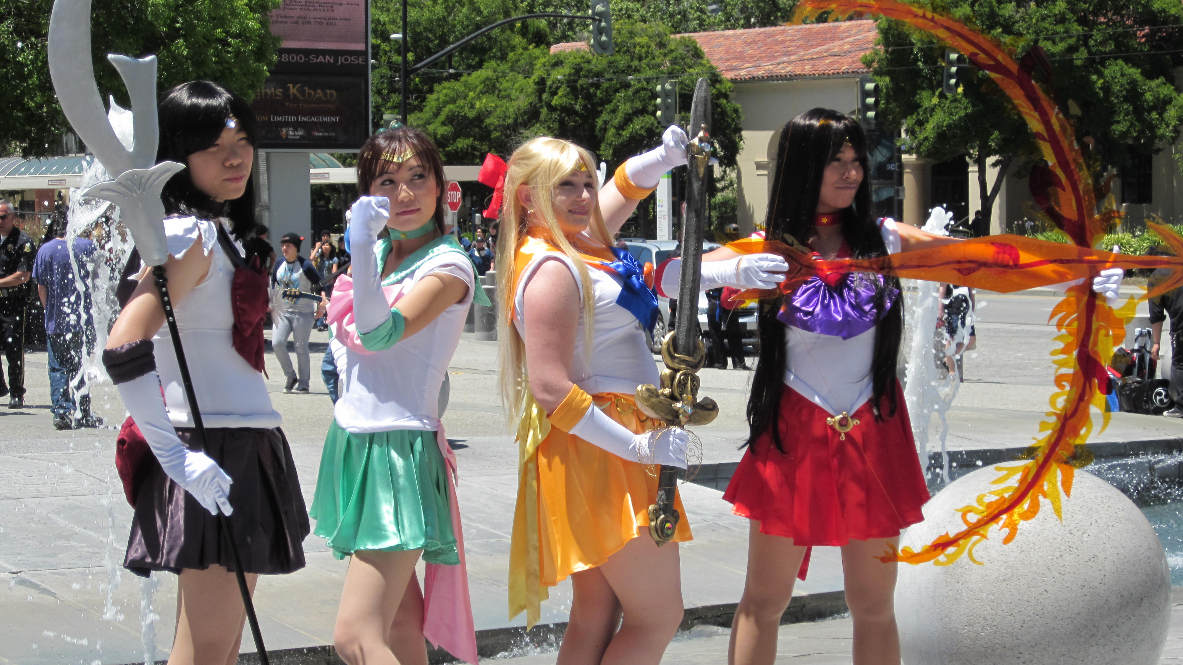 Cosplayers portraying Sailor Mars (red), Sailor Jupiter (green), Sailor Venus (orange), and Sailor Saturn (purple) from Sailor Moon at FanimeCon 2010 in San Jose, California.